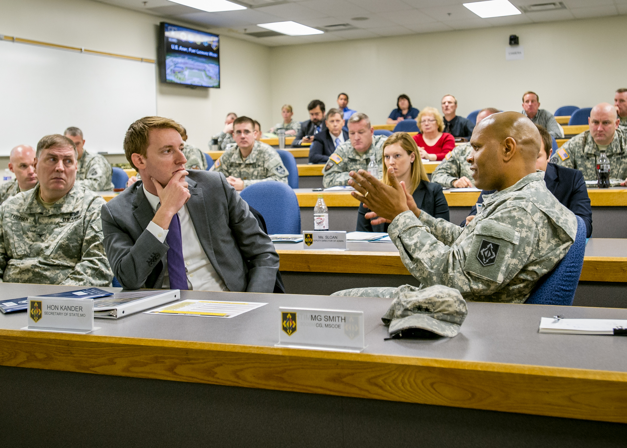 Missouri Secretary of State Jason Kander visited Fort Leonard Wood Nov. 19 to meet with the post's senior leaders and to get a first-hand look at the Army's elite chemical, engineer and military police training.